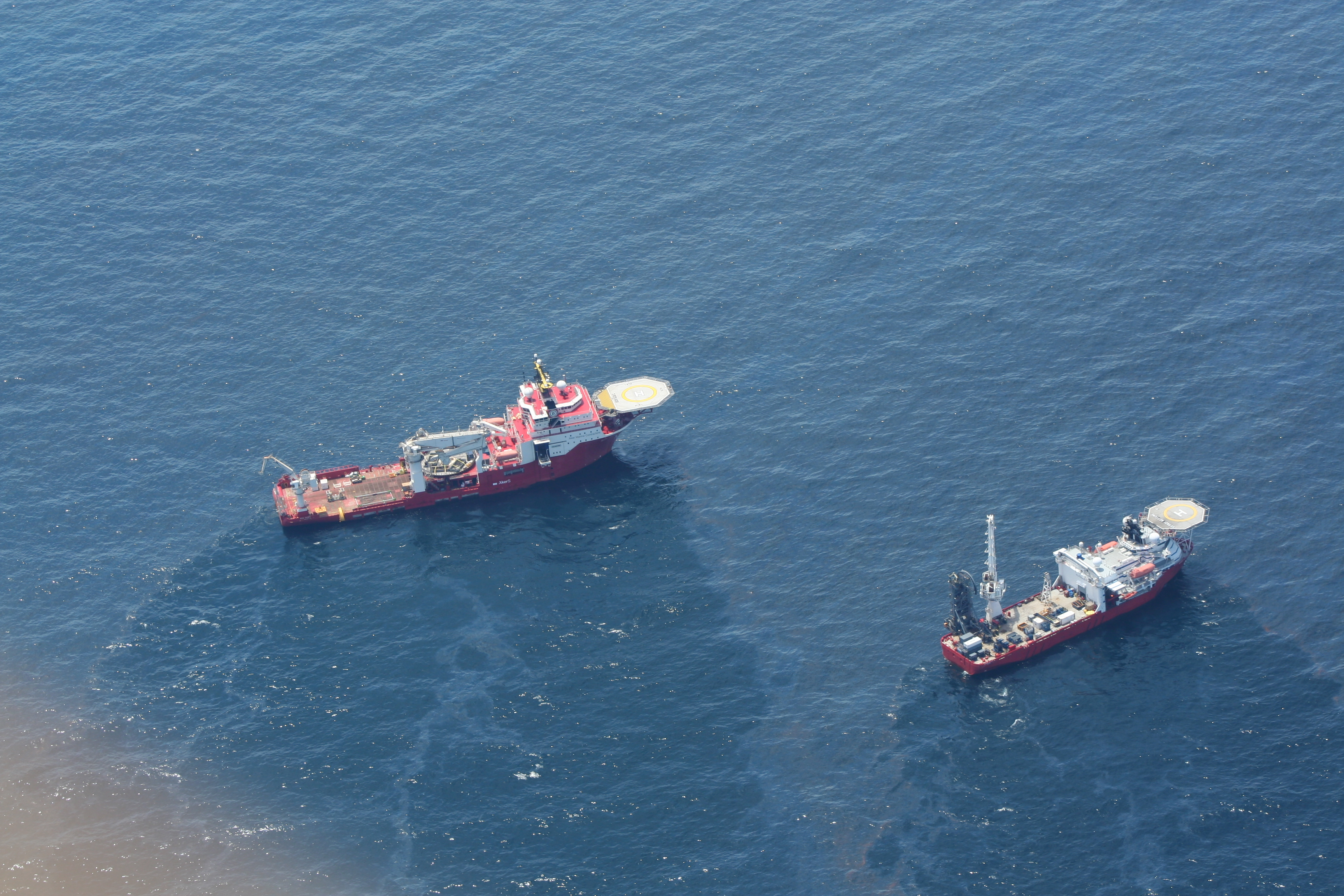 More about EPA's response at